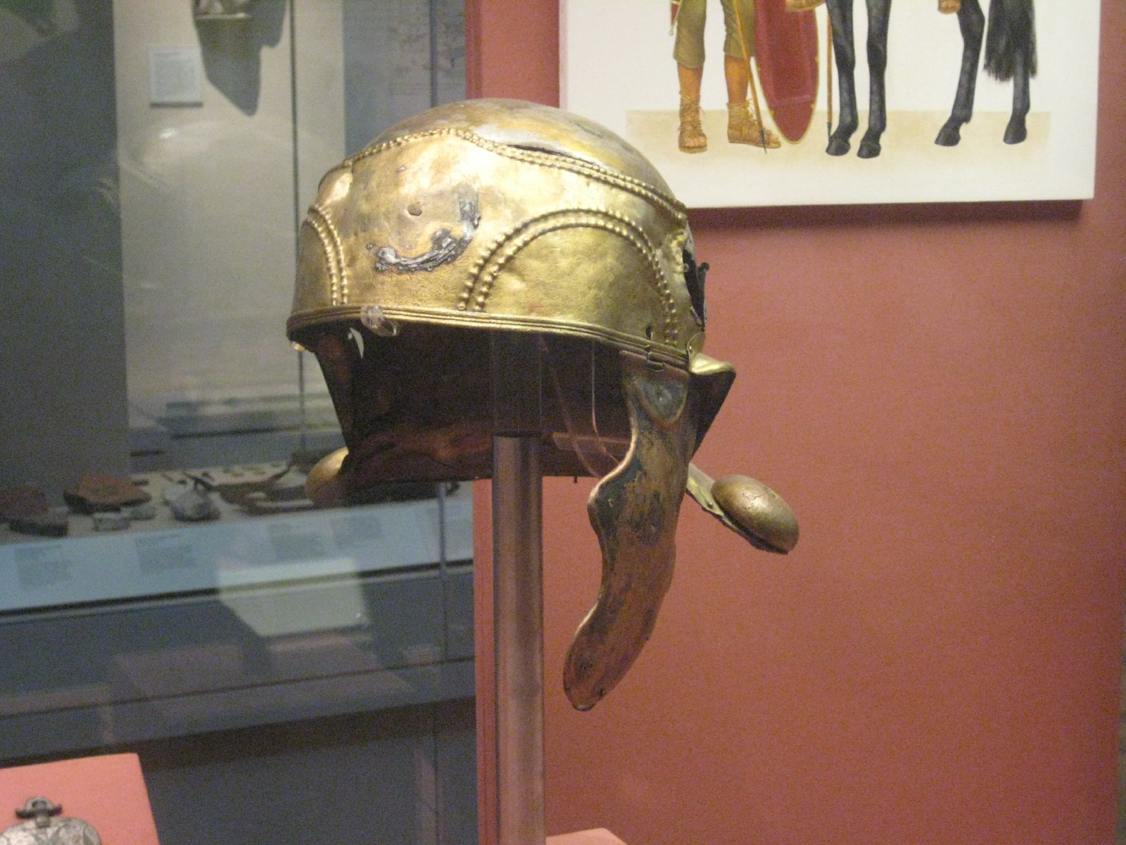 Roman Calvary Combat Helmet (1st century AD.) Found at Witcham Gravel, Ely, Cambridgeshire England.